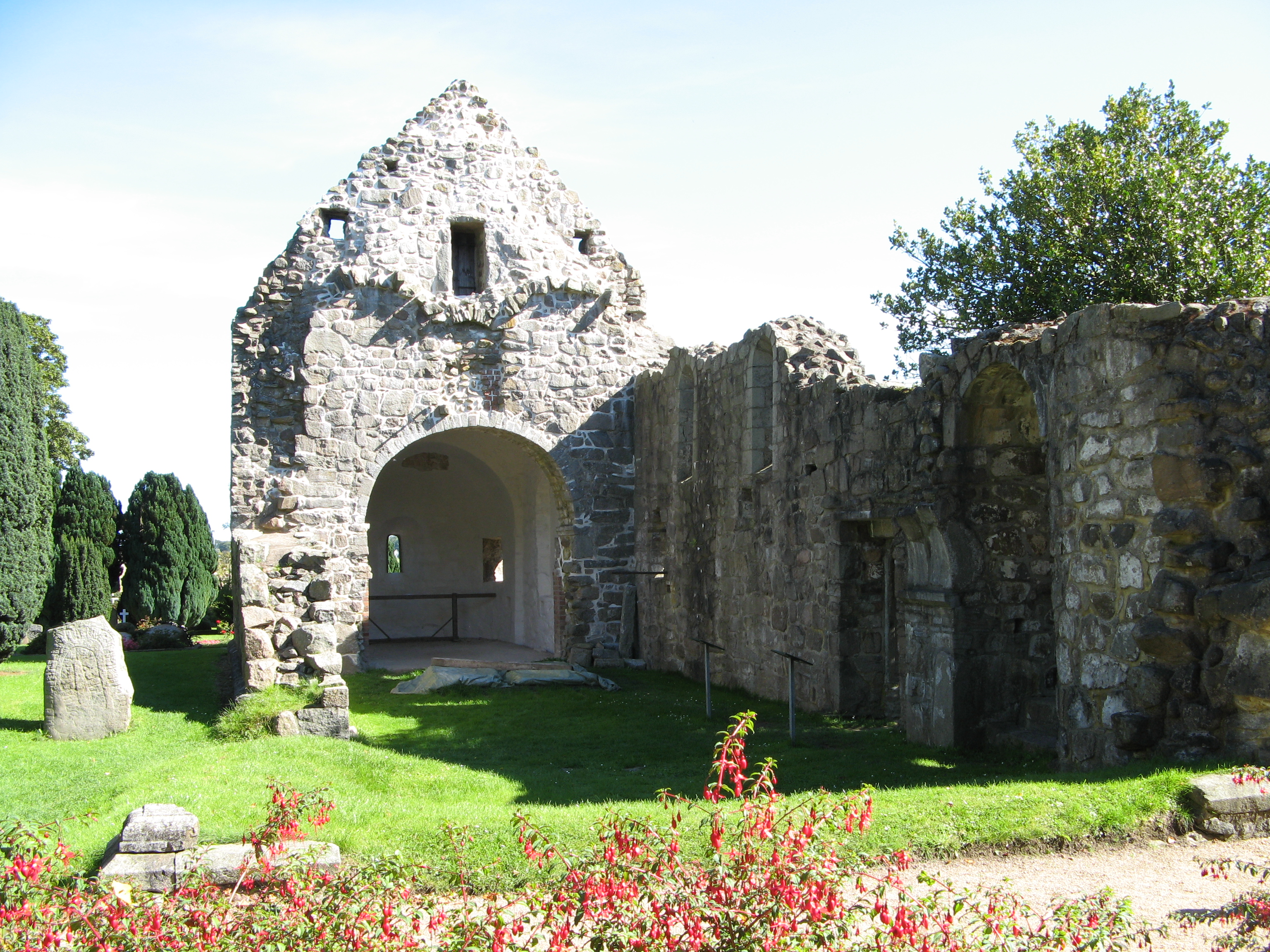 Østermarie Kirke